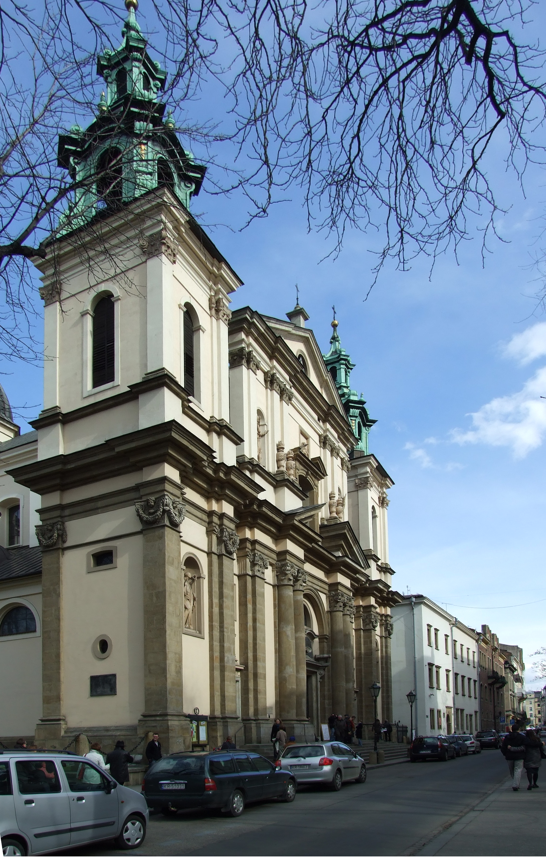 Saint Anne church in Krakow on the street of the same name